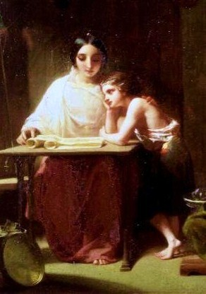 Young saint Timothy with his mother